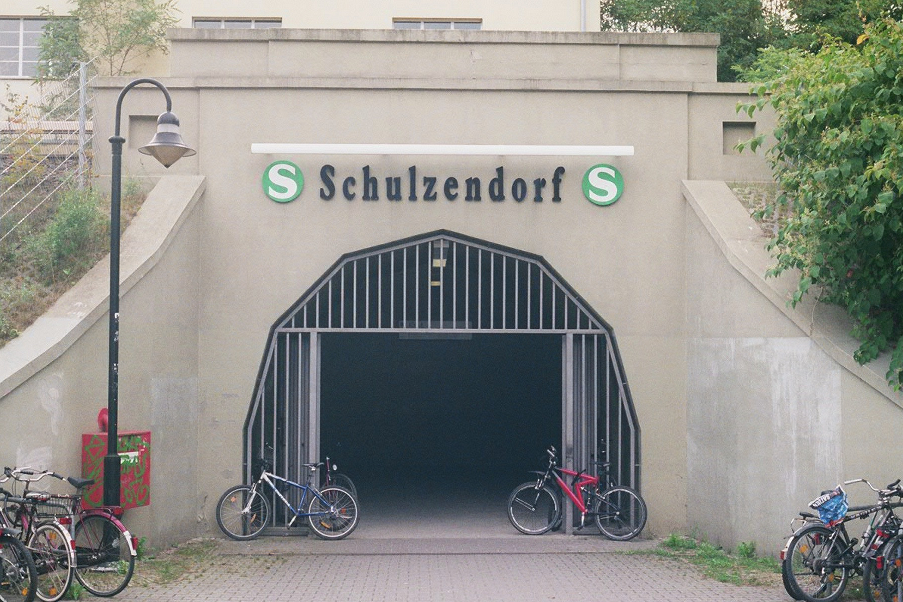 S-Bahn station Schulzendorf, Berlin